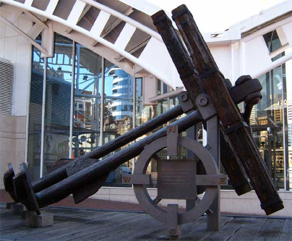 Admiralty Pattern anchors, NSS Vernon, modified as mooring anchors. Merchant Navy memorial, Australian National Maritime Museum, Darling Harbour, Sydney, Australia.